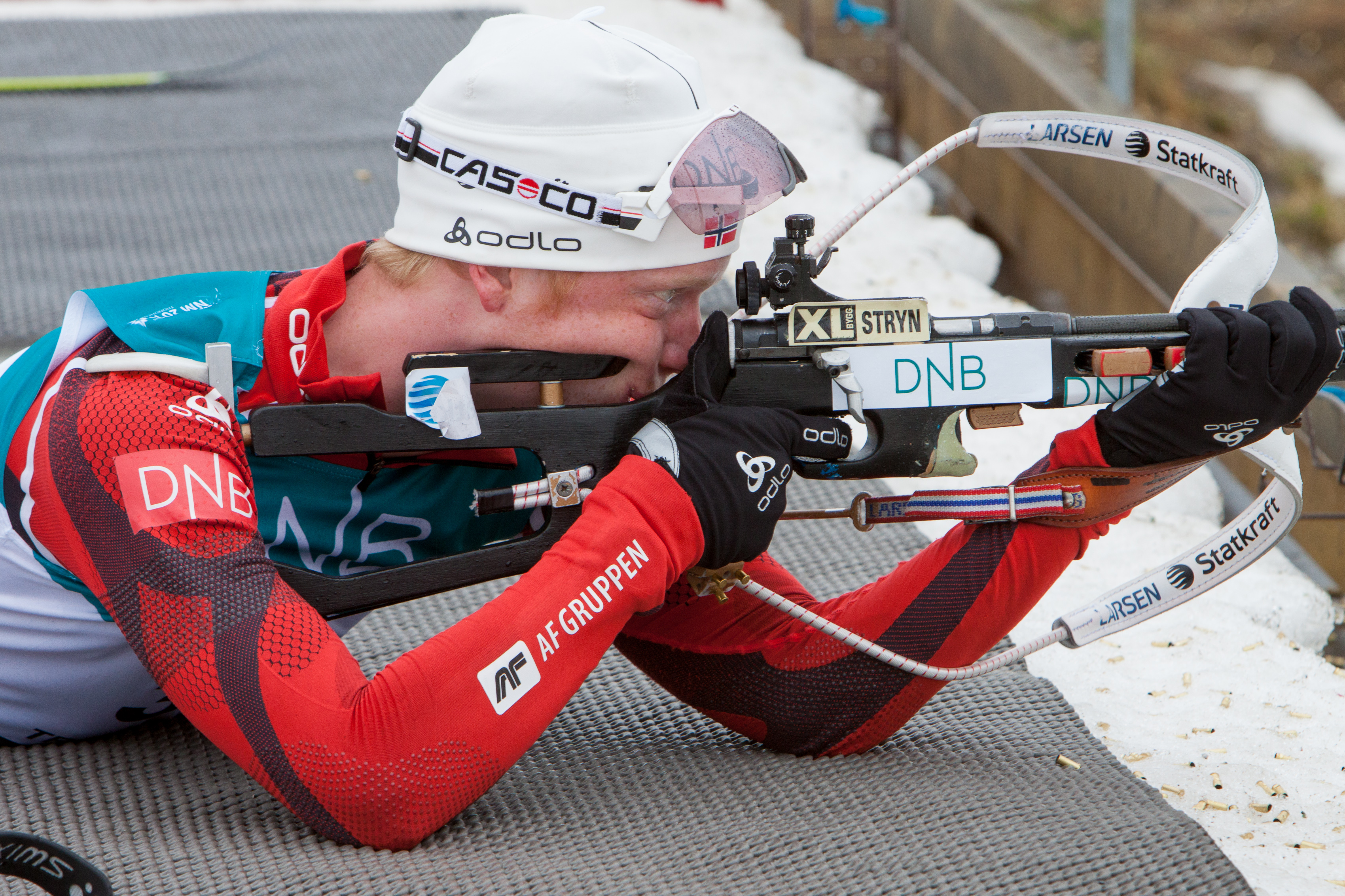 The Norwegian biathlete Johannes Thingnes Bø during the mass start race at the Norwegian biathlon championships 2012 in Trondheim which he would finish in fourth place.